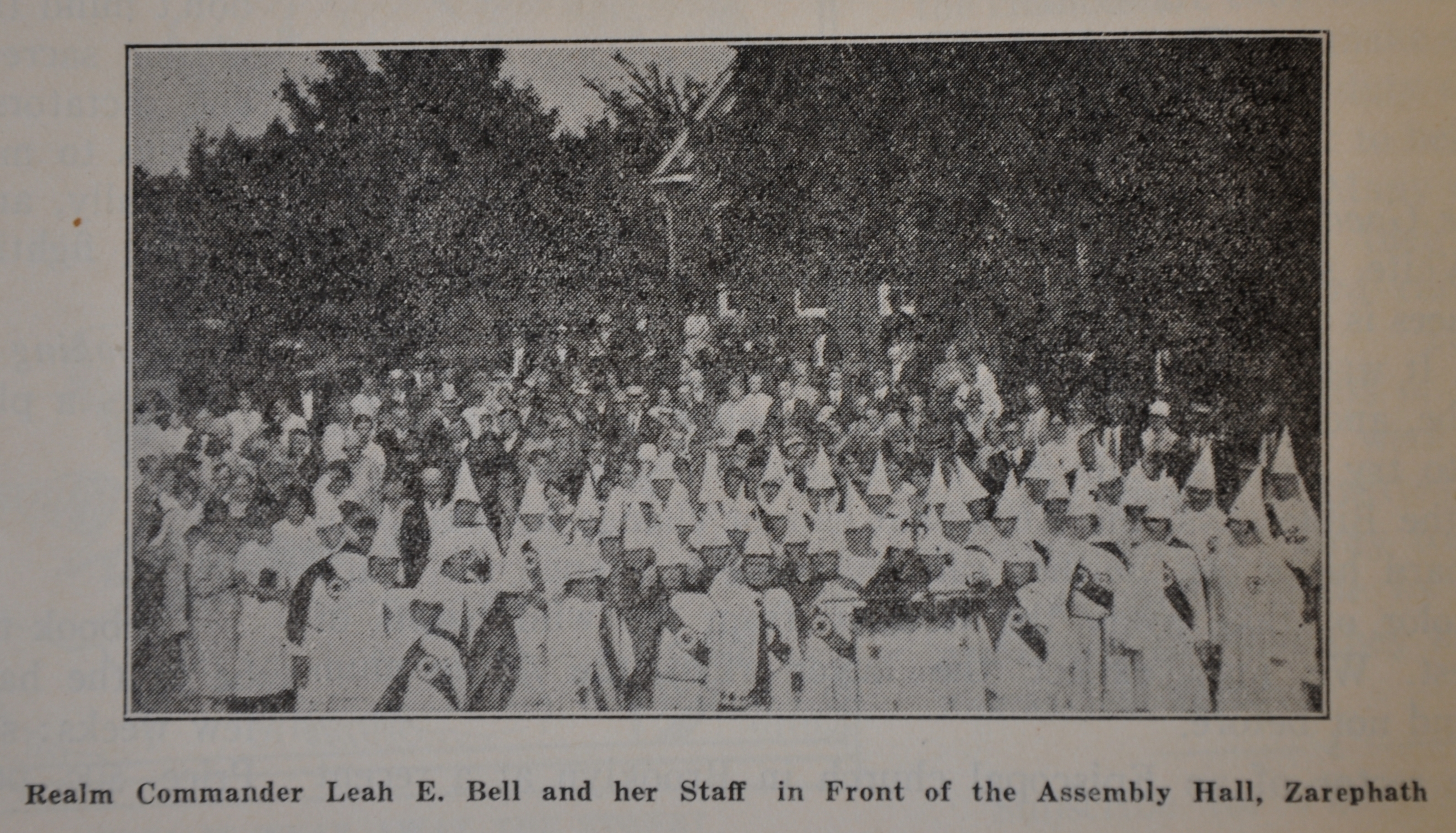 From The Good Citizen October 1929. Published by the Pillar of Fire Church. Copyright not renewed.